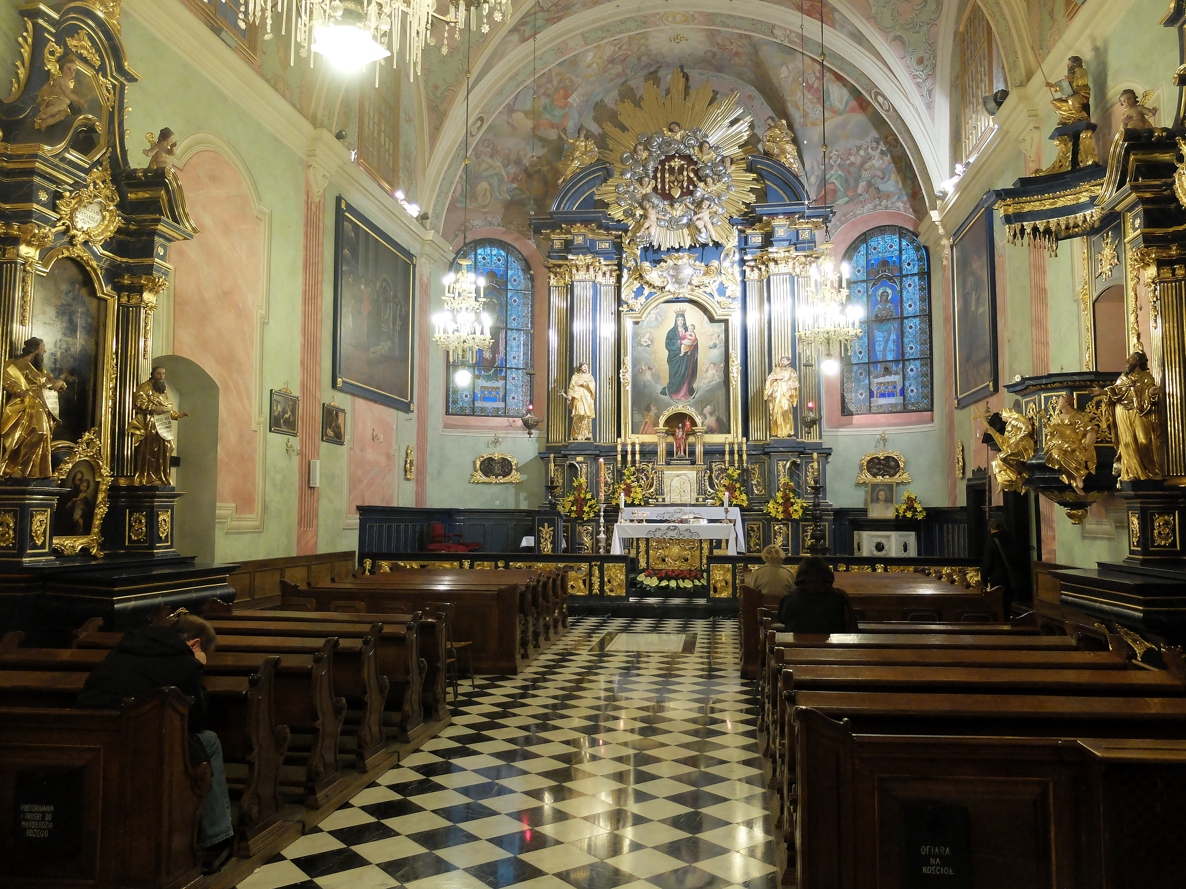 Church of St. Barbara in Kraków - interior